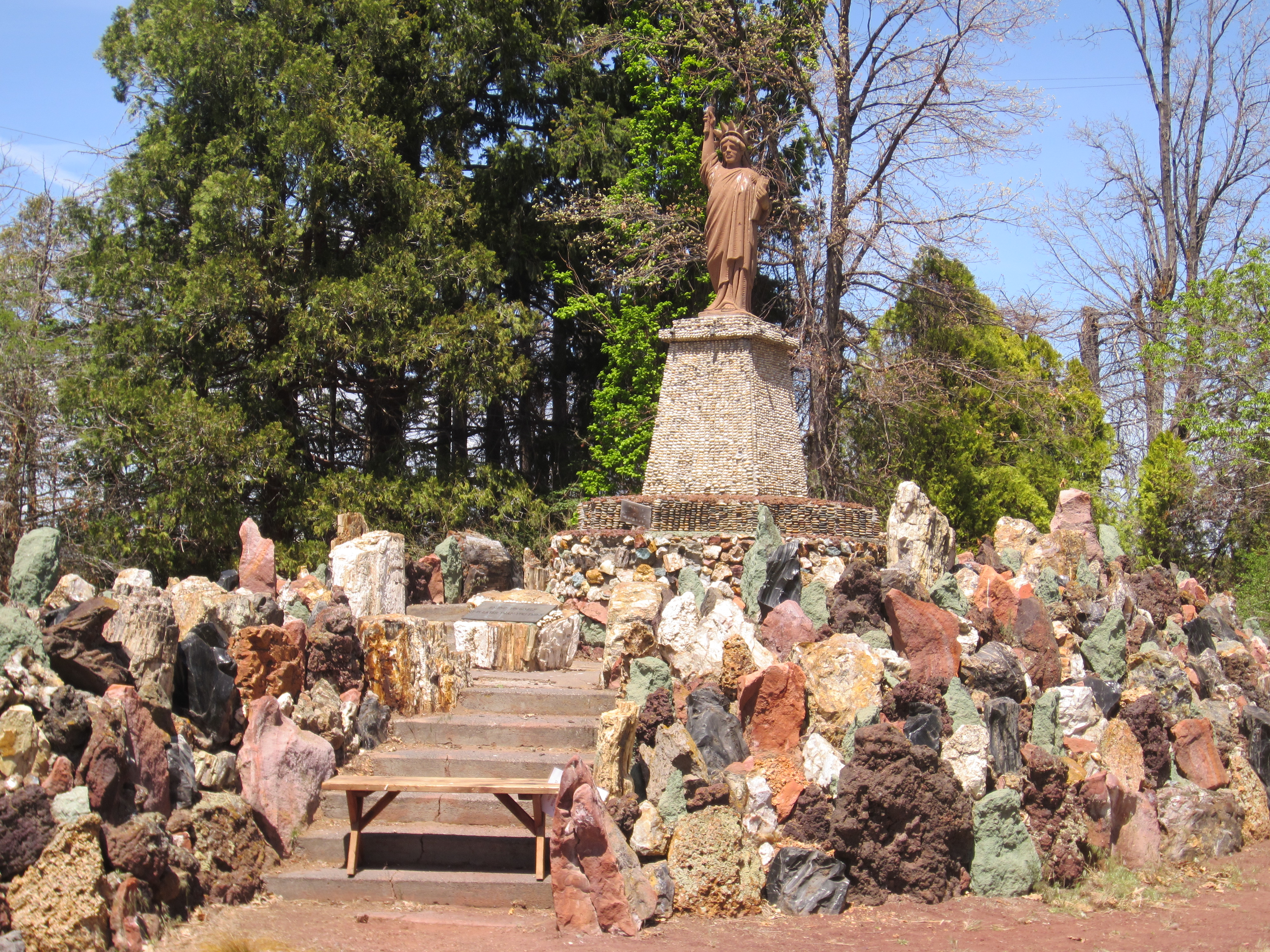 Petersen Rock Garden, Central Oregon, United States (2013)